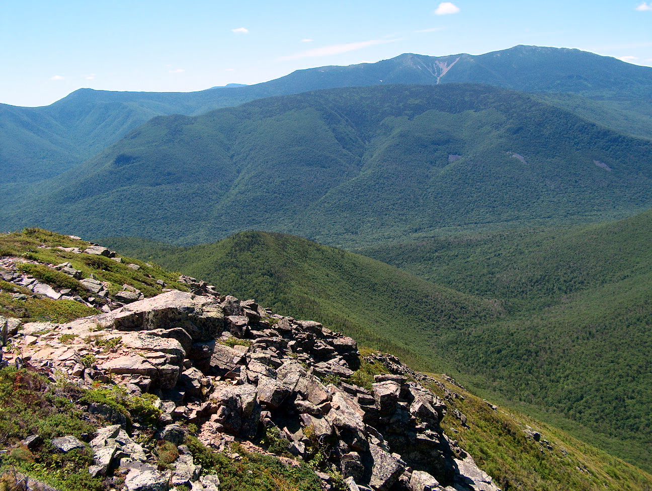 The green mass of Owl's Head in front of the peaks of the Franconia Range in the White Mountains of New Hampshire. Photo taken from Bondcliff by Ken Gallager.